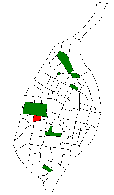 Map of St. Louis Neighborhood #41